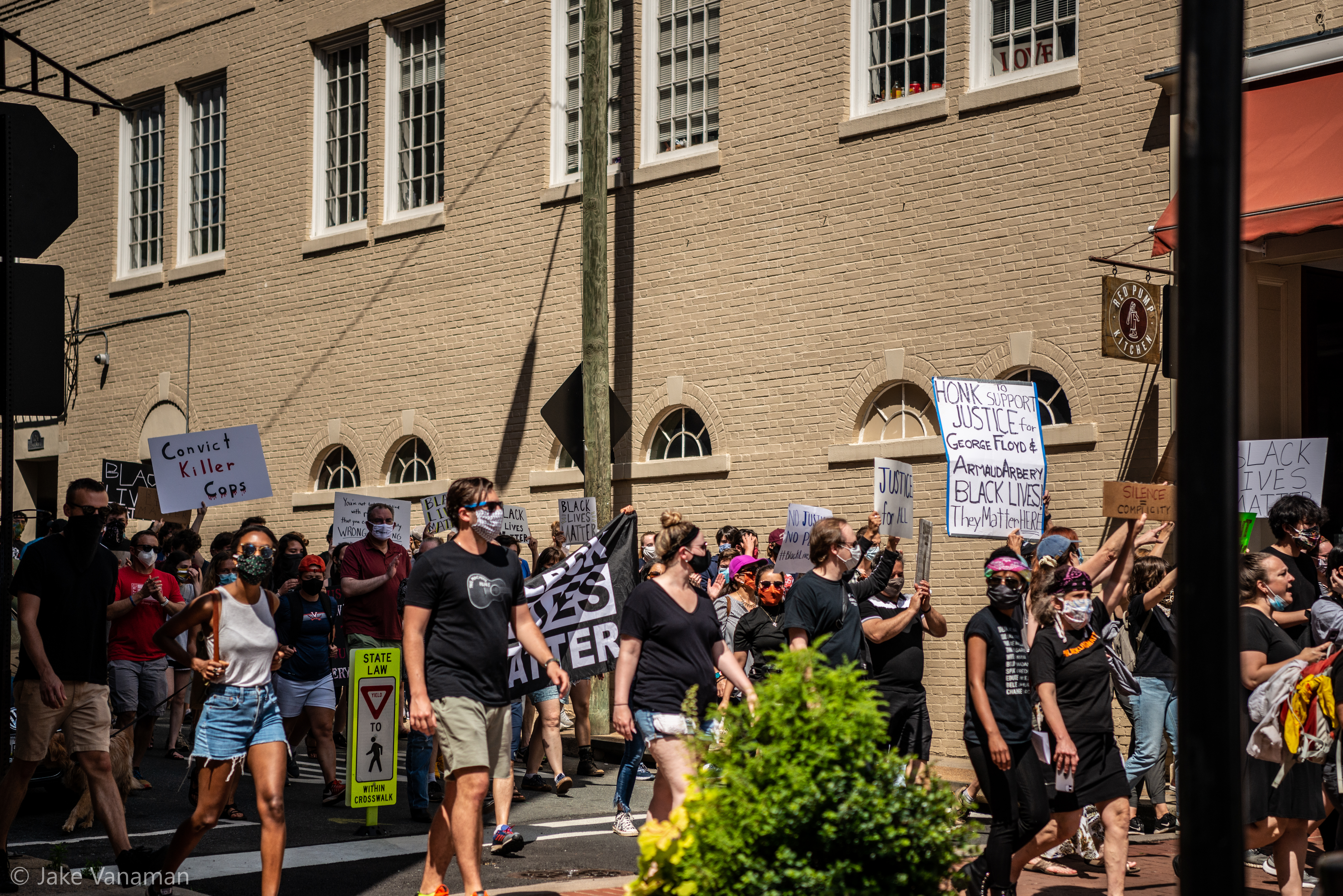 George Floyd protests in Charlottesville, Virginia featuring Black Lives Matter